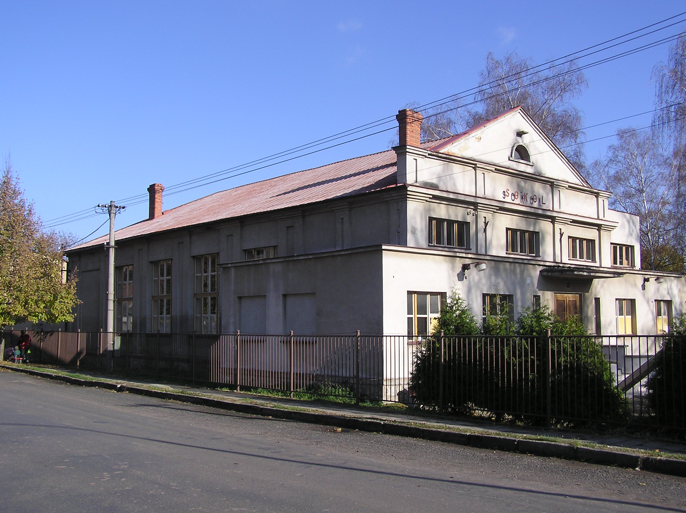 Gymnasium in Hřivice